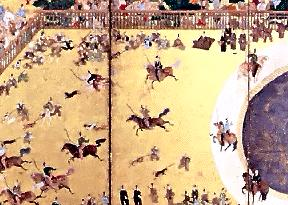 犬追物図。『犬追物図屏風』（東京国立博物館蔵）より。18世紀。 The Mounted Archery Chasing Dogs. "Inu ou mono zu Byobu" (Tokyo National Museum collection). 18th century.